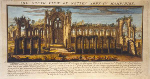 An engraving by the brothers Samuel and Nathaniel Buck of the church of Netley Abbey, Hampshire, UK, published in 1733 from sketches probably done in 1732. The image shows the abbey church fundamentally as it is today.